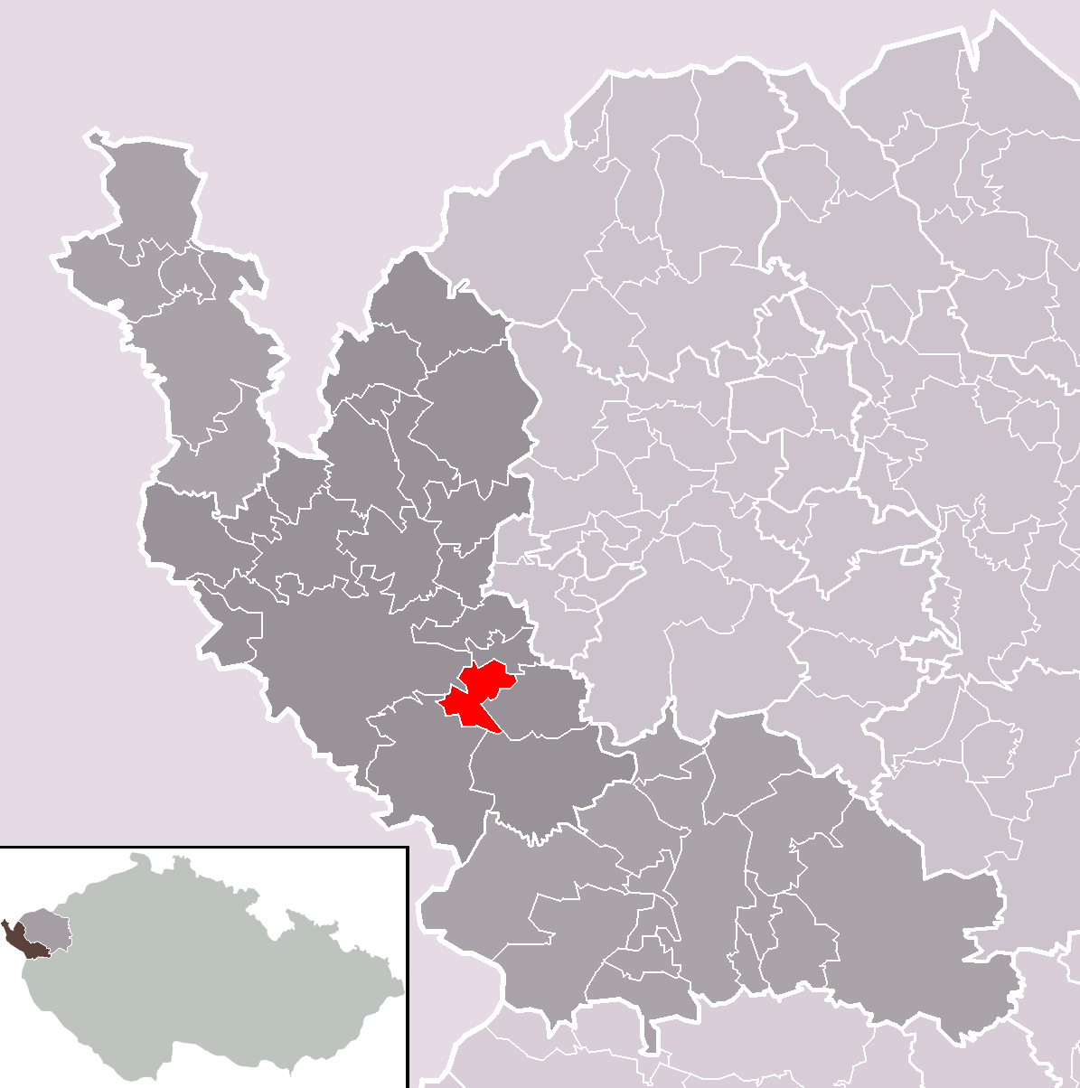 Location of Okrouhlá municipality within Cheb District and administrative area of Cheb as a Municipality with Extended Competence.